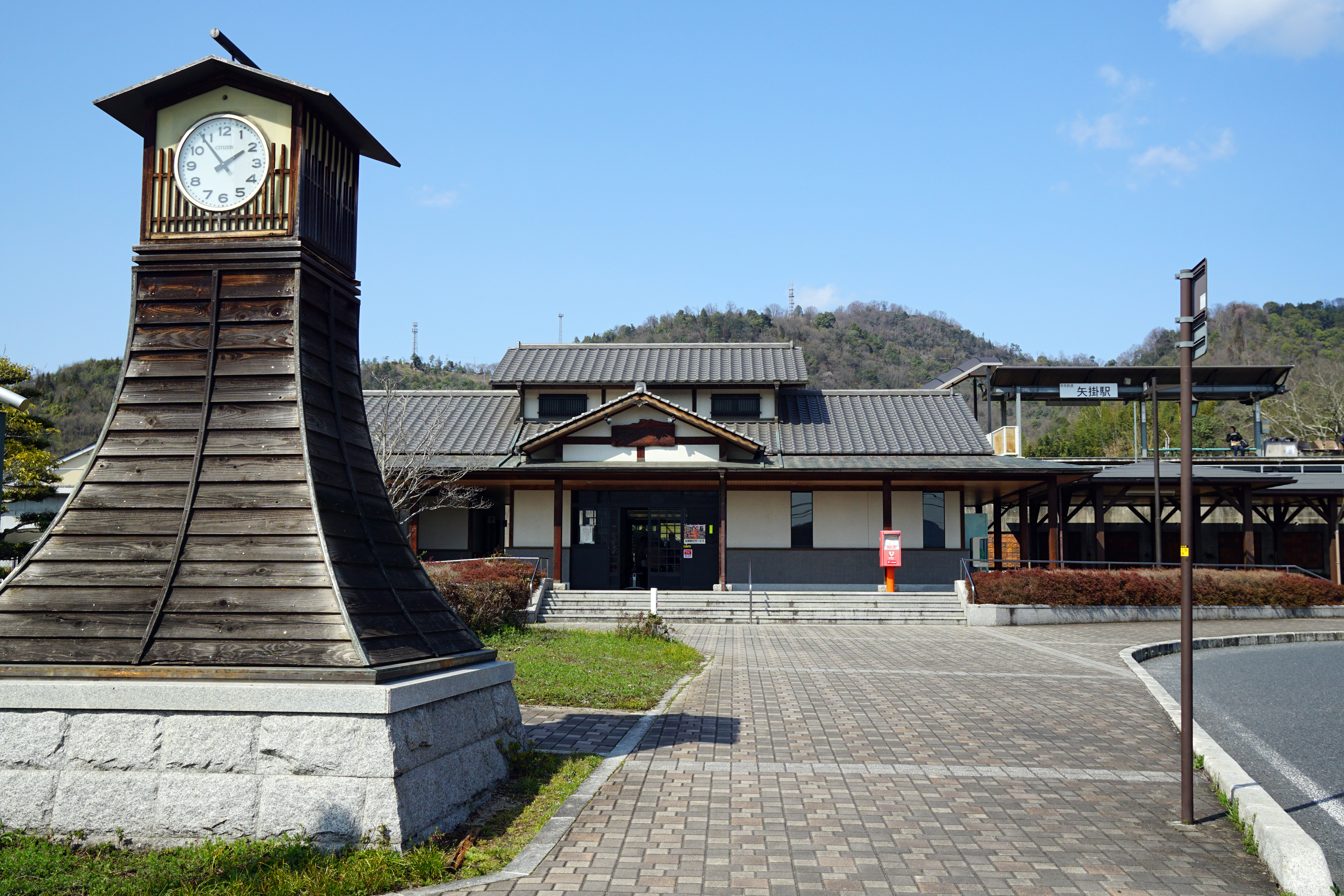 Yakage Station in Yakage, Okayama prefecture, Japan